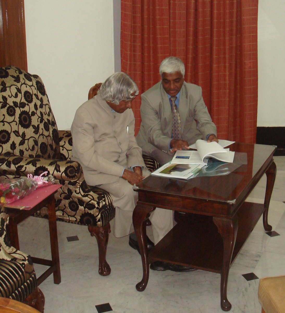 Discussing about research and development